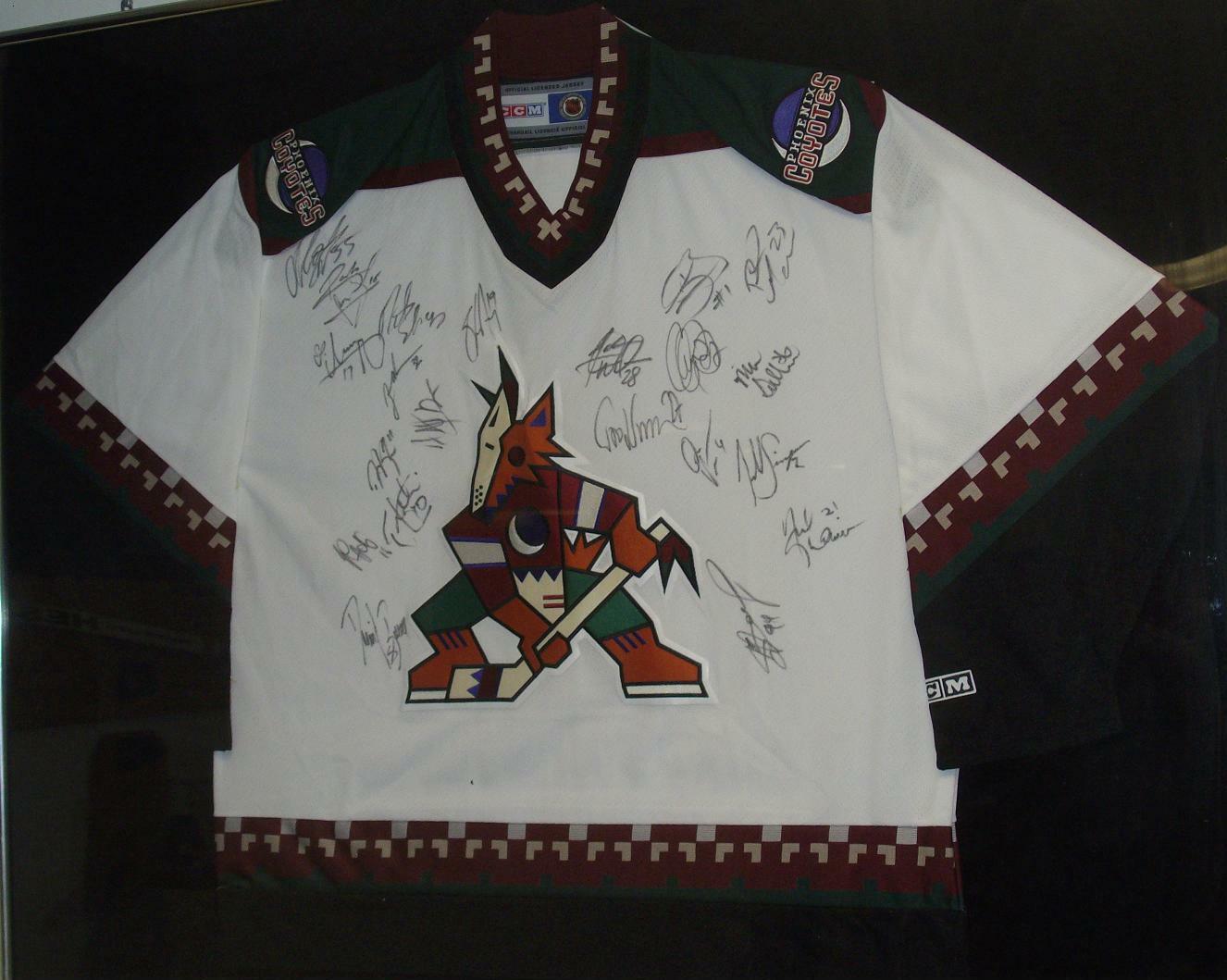 Phoenix Coyotes dedicated jersey with old logo.